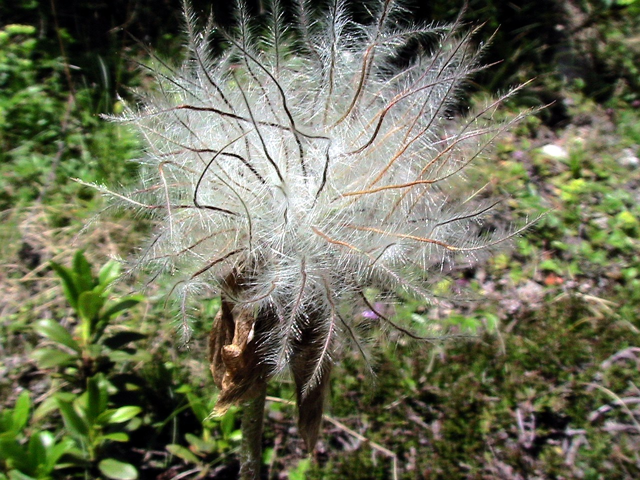 Pulsatilla alpina. In Estany Tort, Cabdella (Pallars Jussà - Catalunya). To 2.305 m. altitude